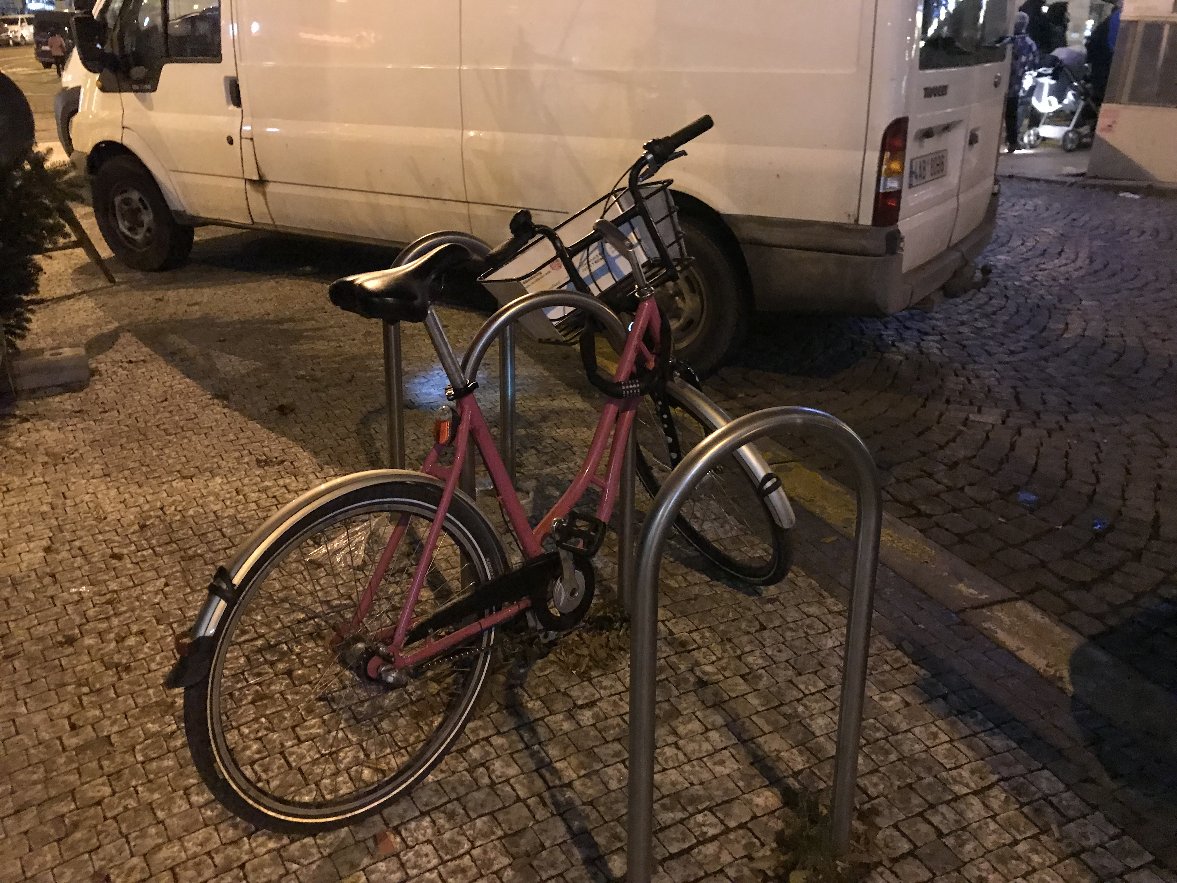 Rekola bike in bike stand at I.P.Pavlova, Prague (Tylovo square)